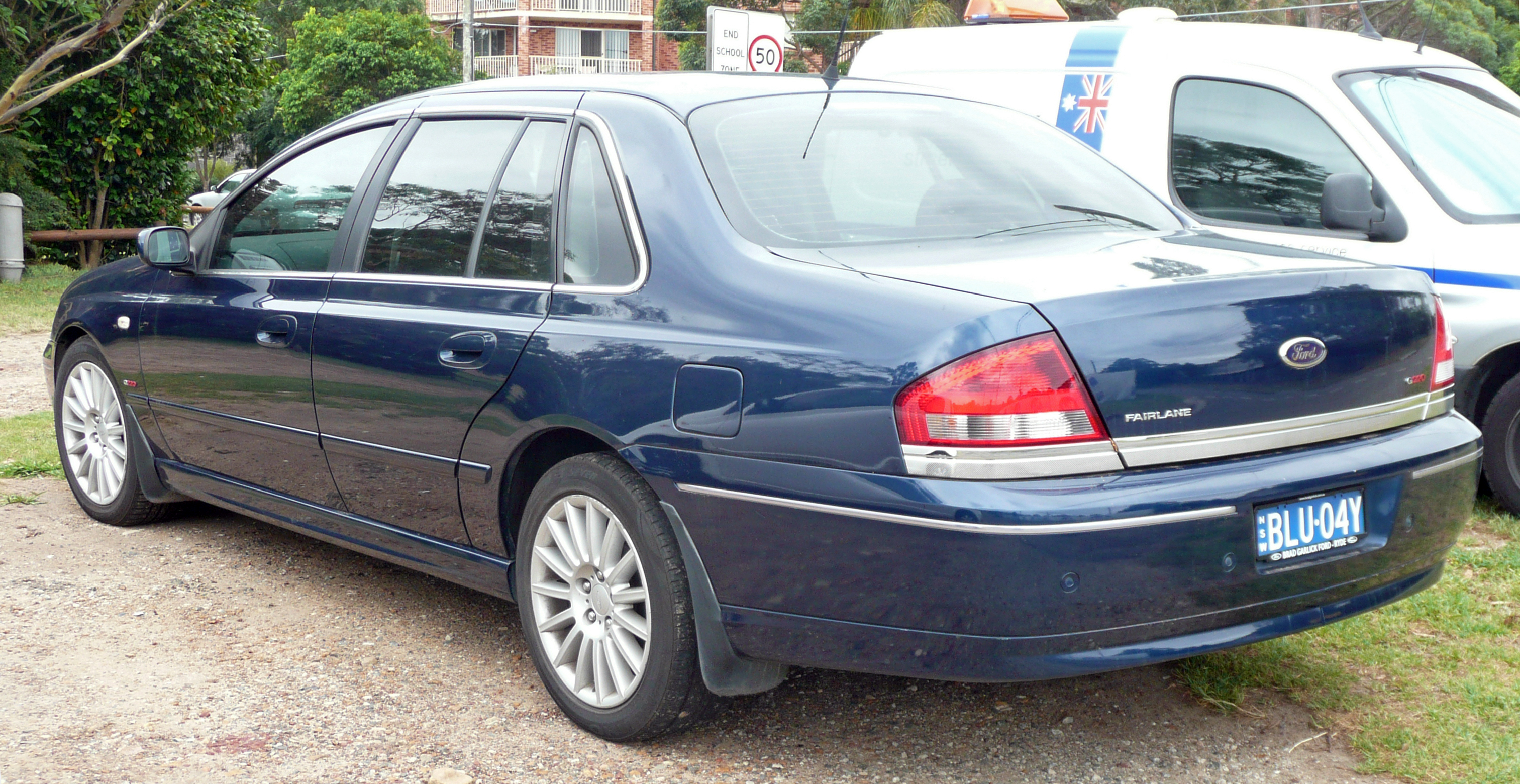 2003–2005 Ford Fairlane (BA) G220 sedan. Photographed in Sutherland, New South Wales, Australia.